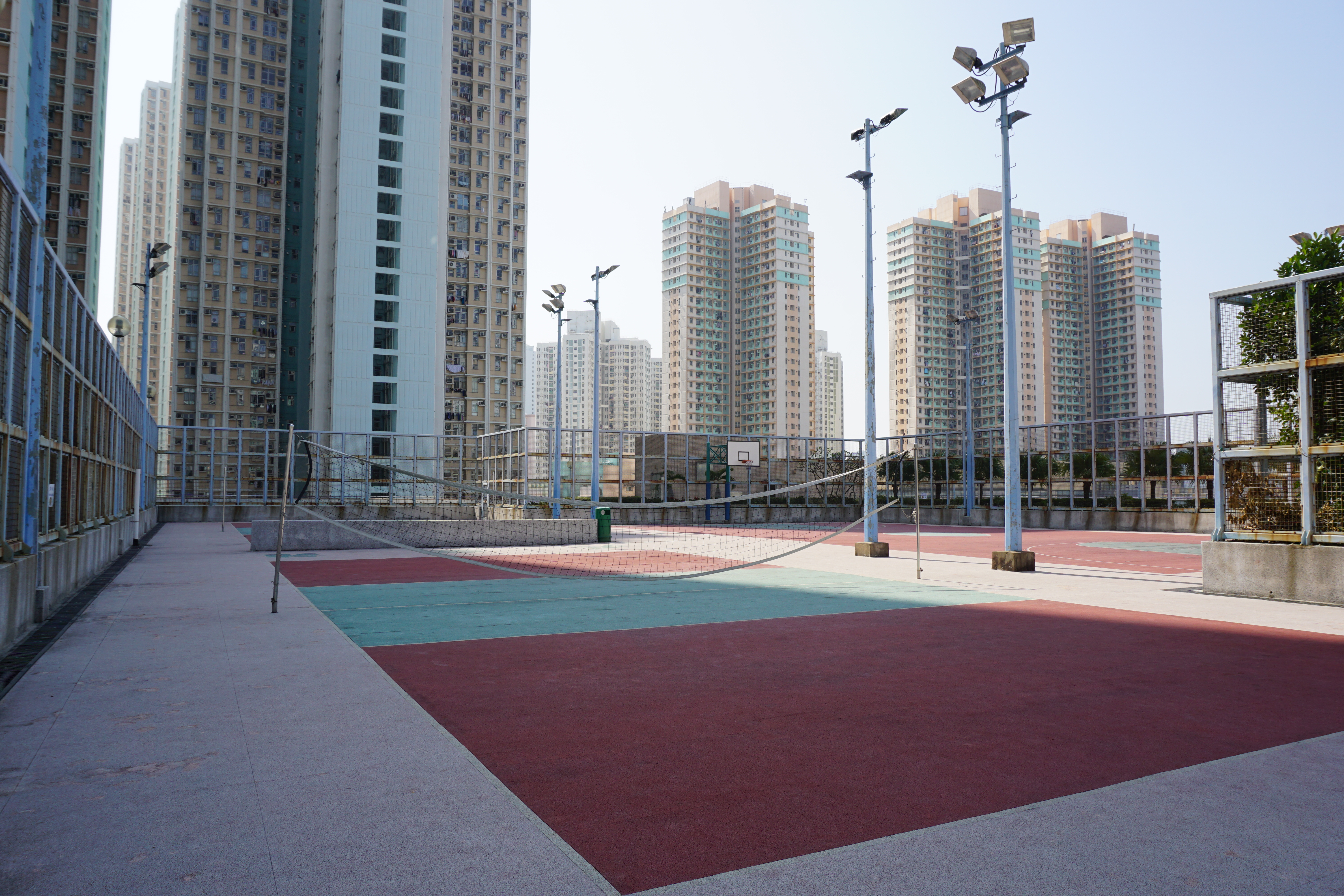 Tin Fu Court in Tin Shui Wai, Hong Kong.